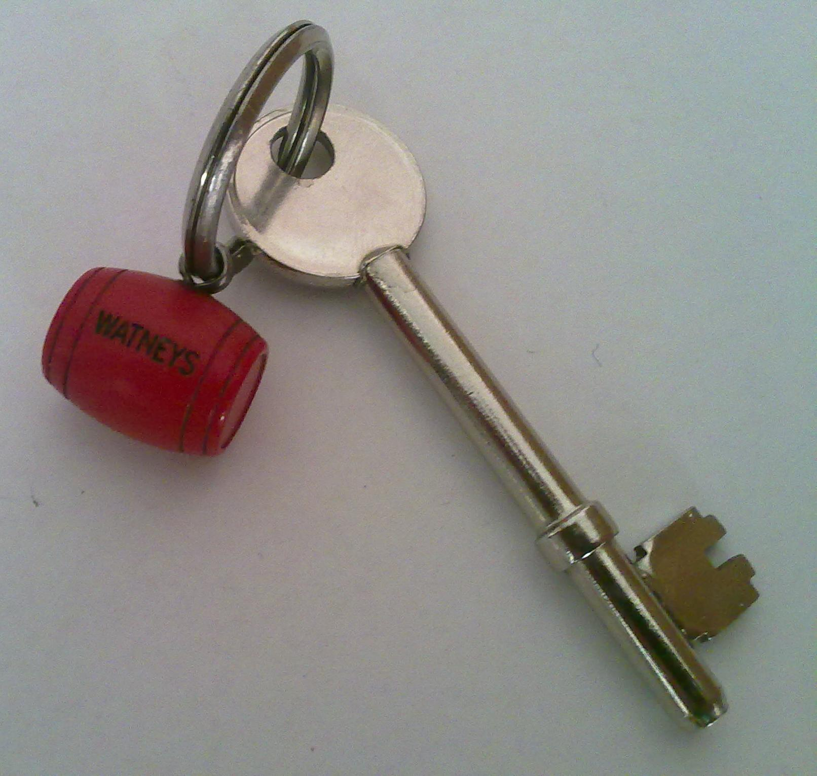 Photograph of a key ring with one Chubb key and a Watneys Red Barrell key fob